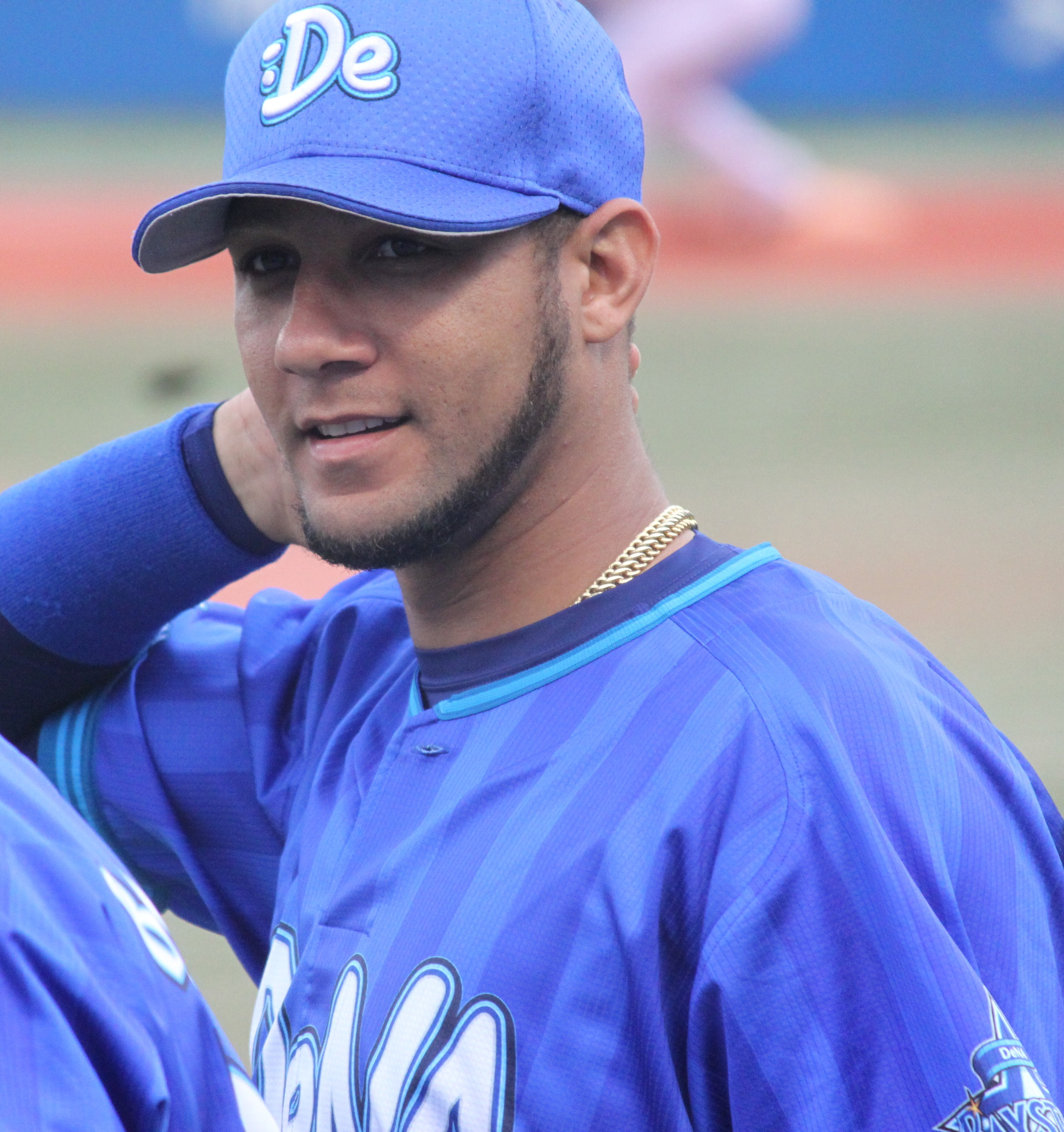 Yulieski Gourriel, infielder of the Yokohama DeNA BayStars, at Meiji Jingu Stadium.